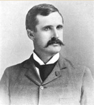 Warren Brewster Hooker, New York Congressman and Judge